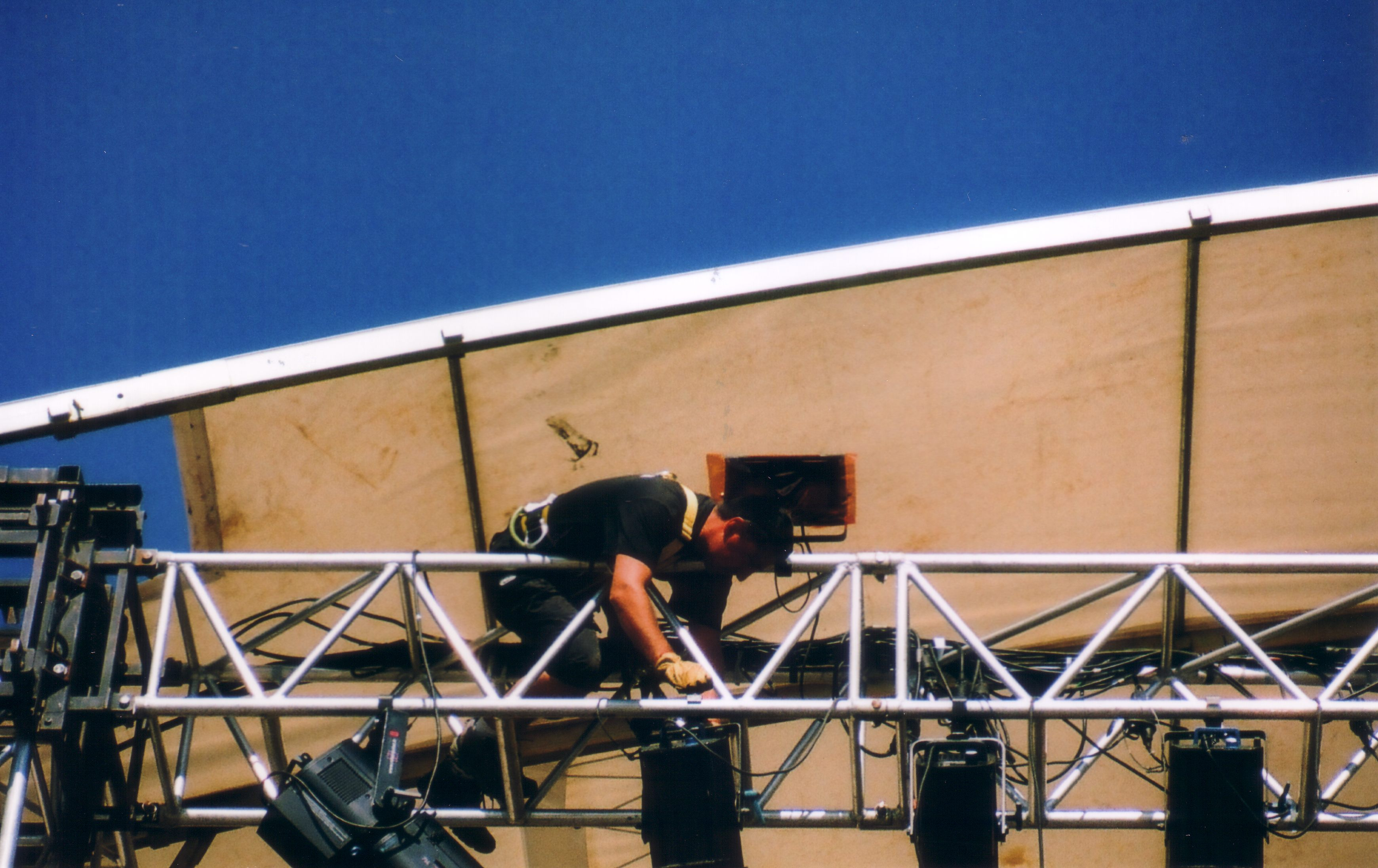 Lighting technician in Toulouse summer 2008